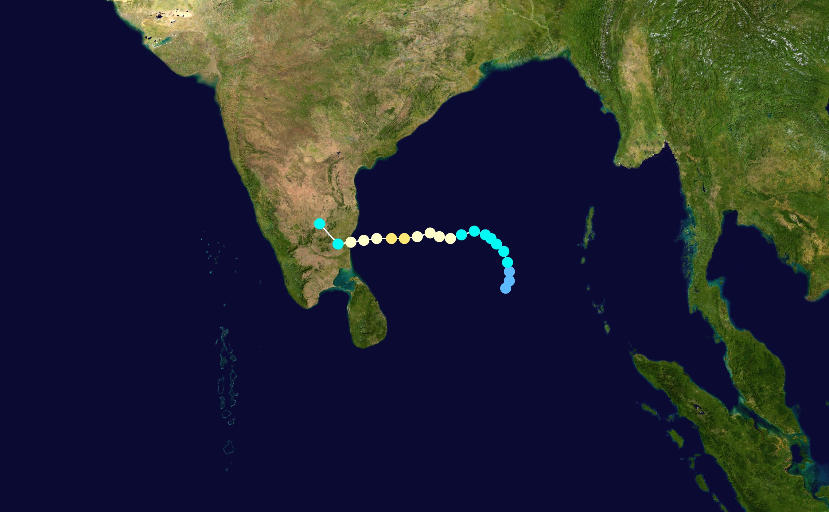 Track map of Very Severe Cyclonic Storm Thane of the 2011 North Indian Ocean cyclone season. The points show the location of the storm at 6-hour intervals. The colour represents the storm's maximum sustained wind speeds as classified in the Saffir–Simpson scale (see below), and the shape of the data points represent the nature of the storm, according to the legend below. Saffir–Simpson scale Tropical depression≤38 mph≤62 km/h Category 3111–129 mph178–208 km/h Tropical storm39–73 mph63–118 km/h Category 4130–156 mph209–251 km/h Category 174–95 mph119–153 km/h Category 5≥157 mph≥252 km/h Category 296–110 mph154–177 km/h Unknown Storm type Tropical cyclone Subtropical cyclone Extratropical cyclone / Remnant low / Tropical disturbance / Monsoon depression